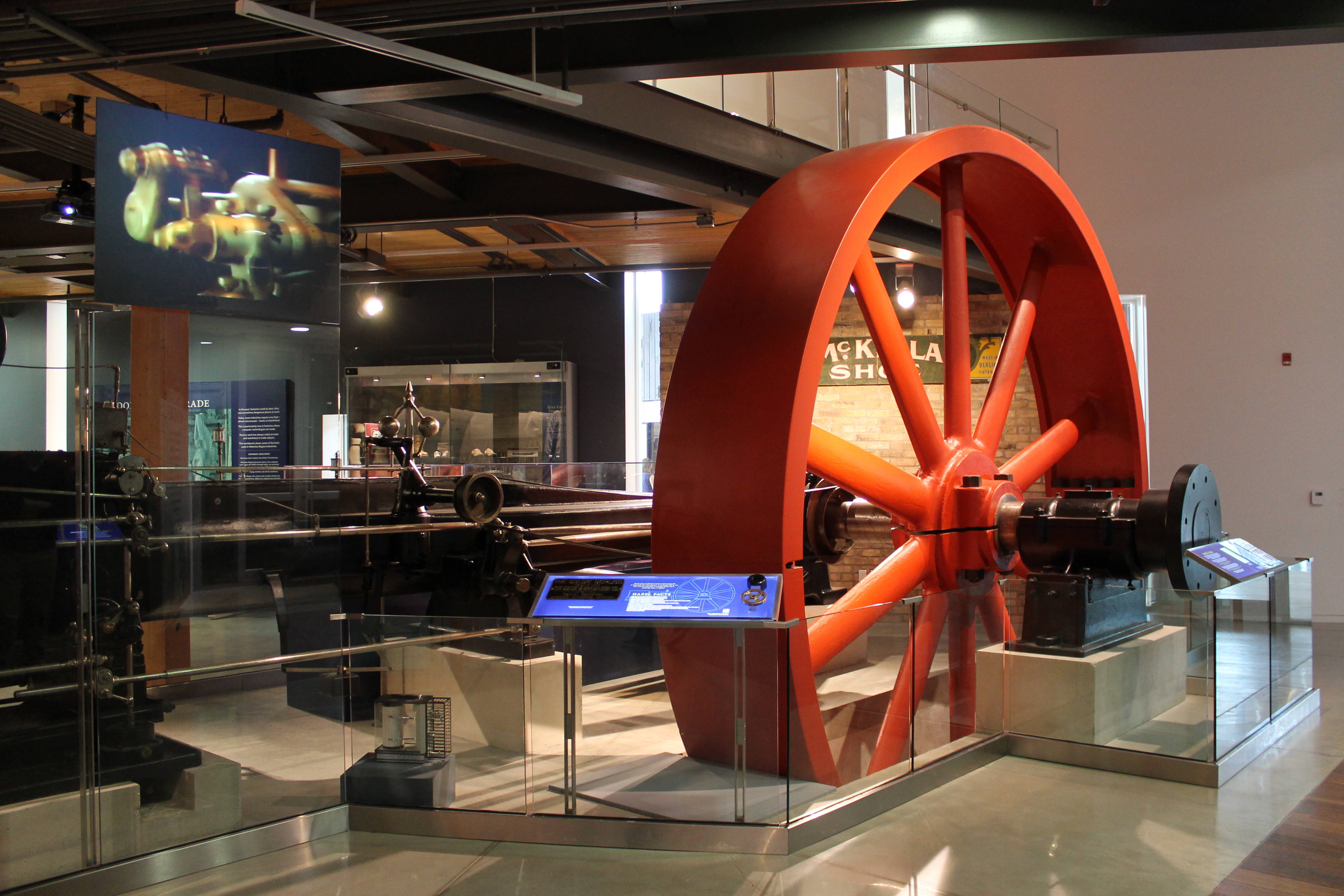 Steam engine, nicknamed "Hazel", built by Goldie & McCulloch Ltd. on display at the Waterloo Region Museum in Ontario, Canada